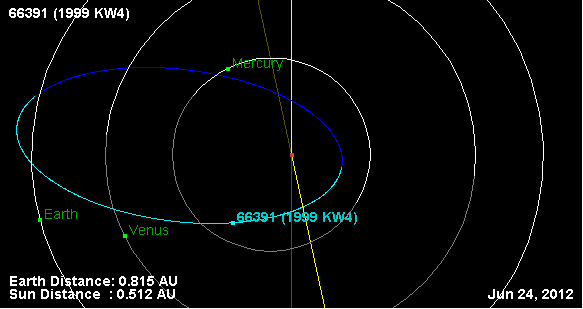 Orbit of the asteroid (66391) 1999 KW4